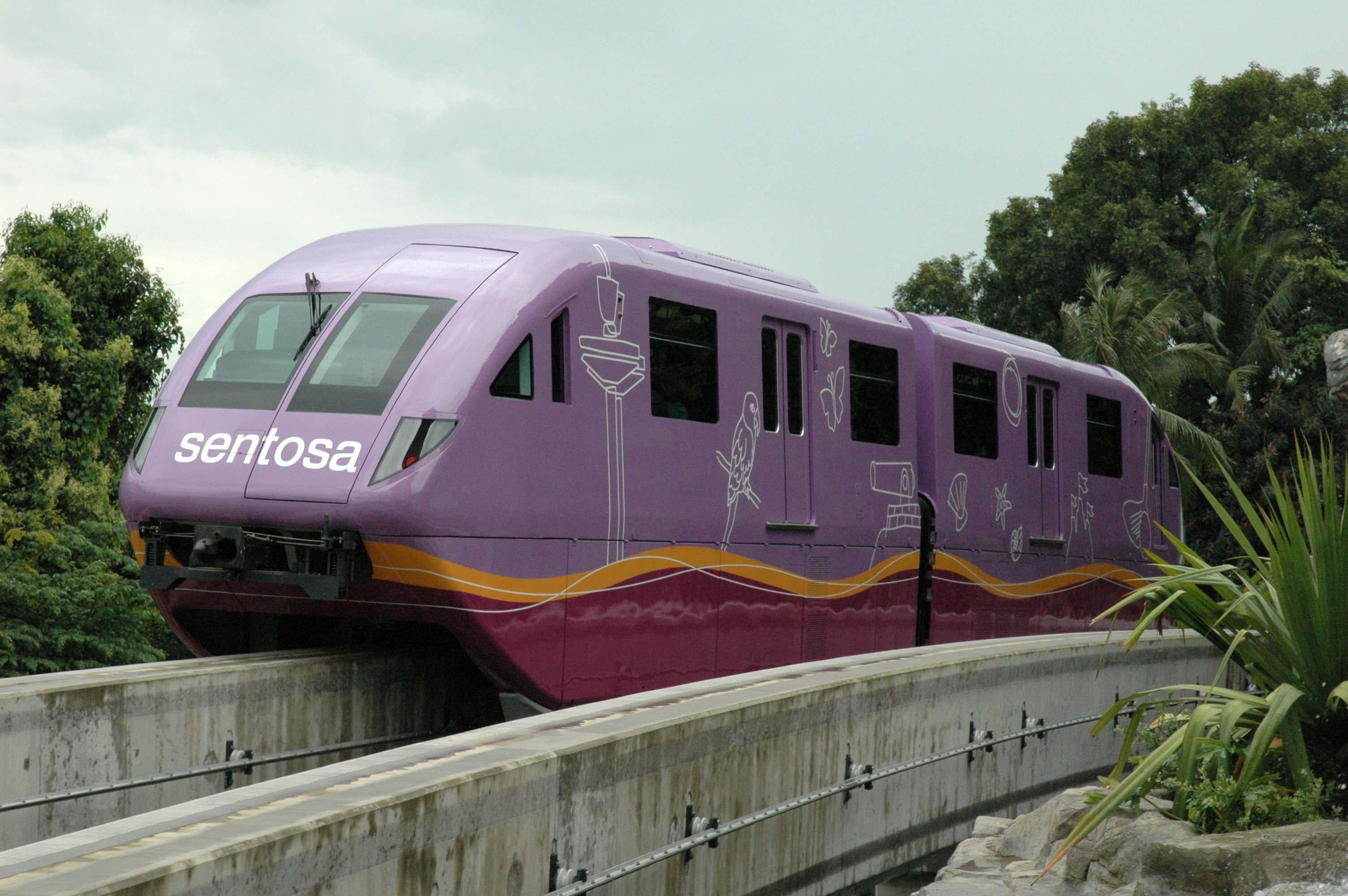 Sentosa Express "Purple" train, pulling into Imbiah Station